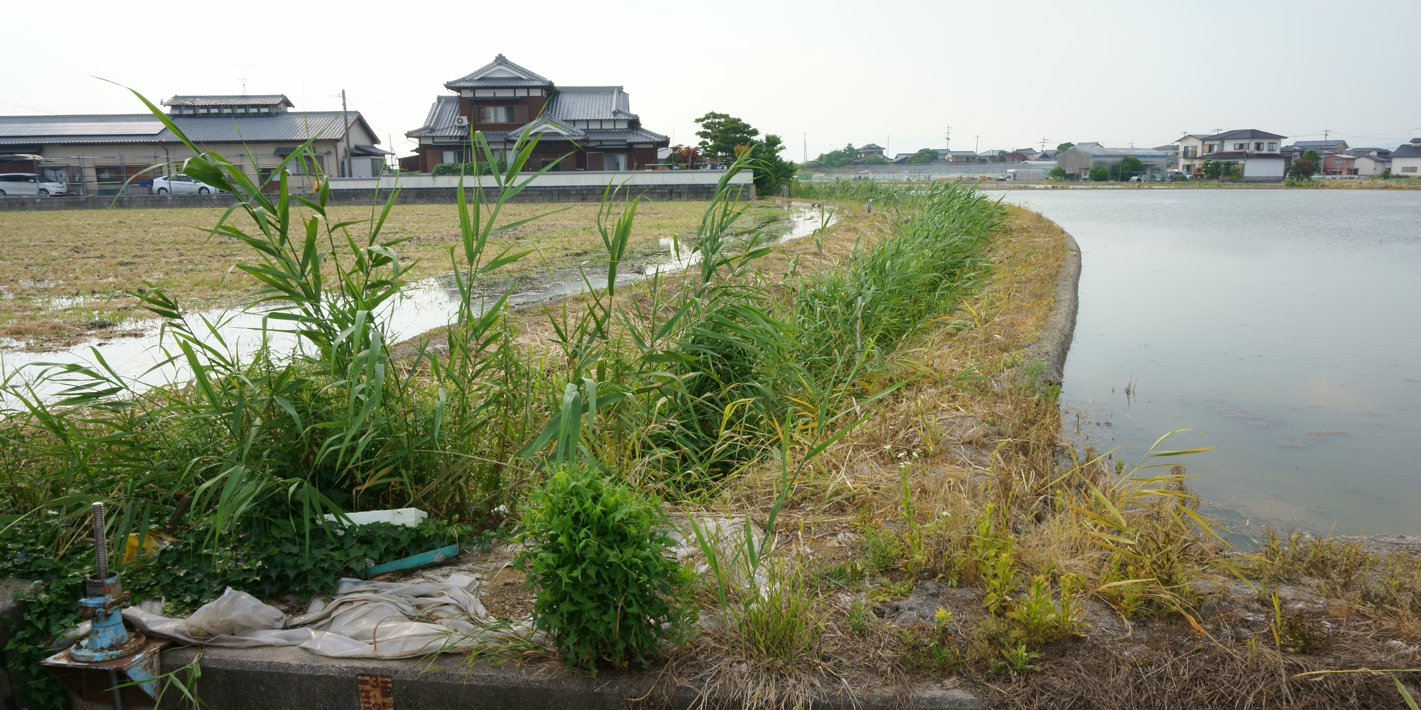 "Torishiba", a boundary canal between Onojima(Okawa city, Fukuoka - Yanagawa Domain) and Odakuma(Saga city, Saga - Saga Domain), made in 17th century.